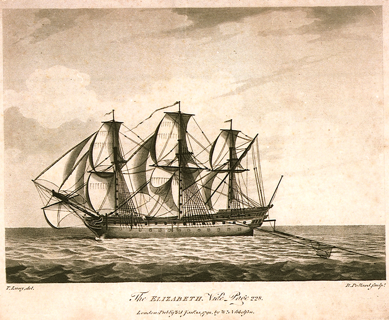 The Elizabeth - Vide Page 228 Print